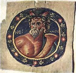 Fabric with the image of the god of the Nile. Egypt. IV century BC. Linen, wool. 24,5 x 24, 6 cm. Pushkin Museum.